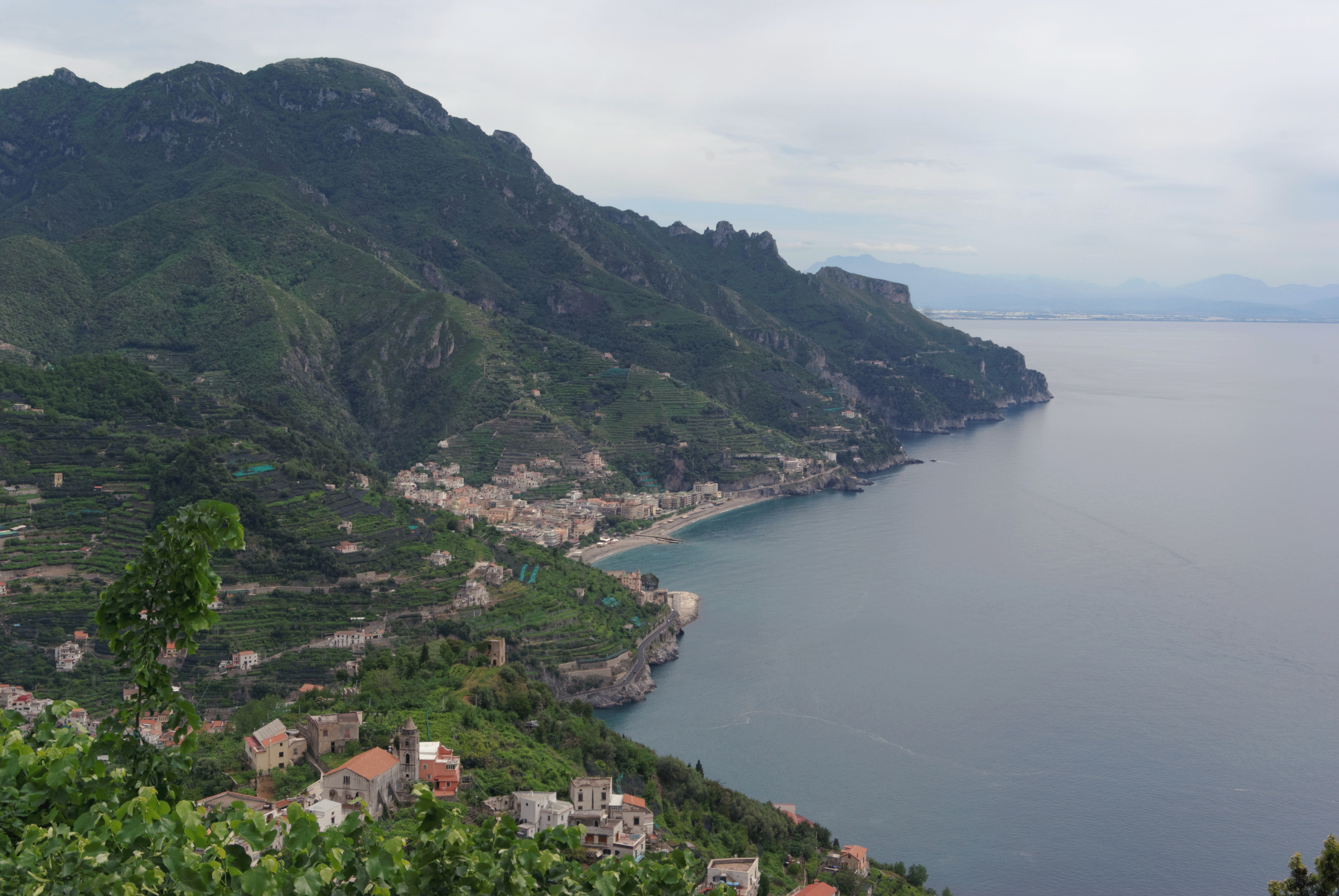 Ravello, view to Maiori